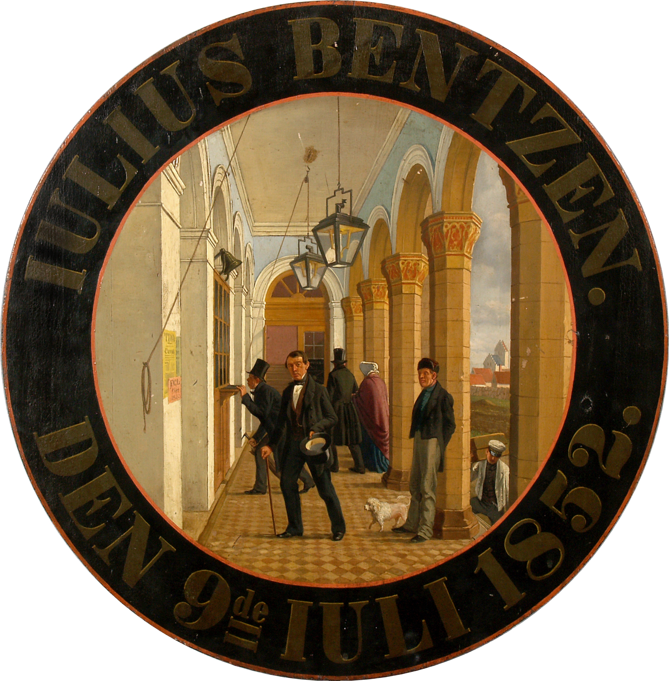 Target from the Roskilde Shooting Society made for the industrialist Jørgen Julius Bentzen (1811-1879). It depicts the loggia of Roskilde Railway Station. Roskilde Museum.